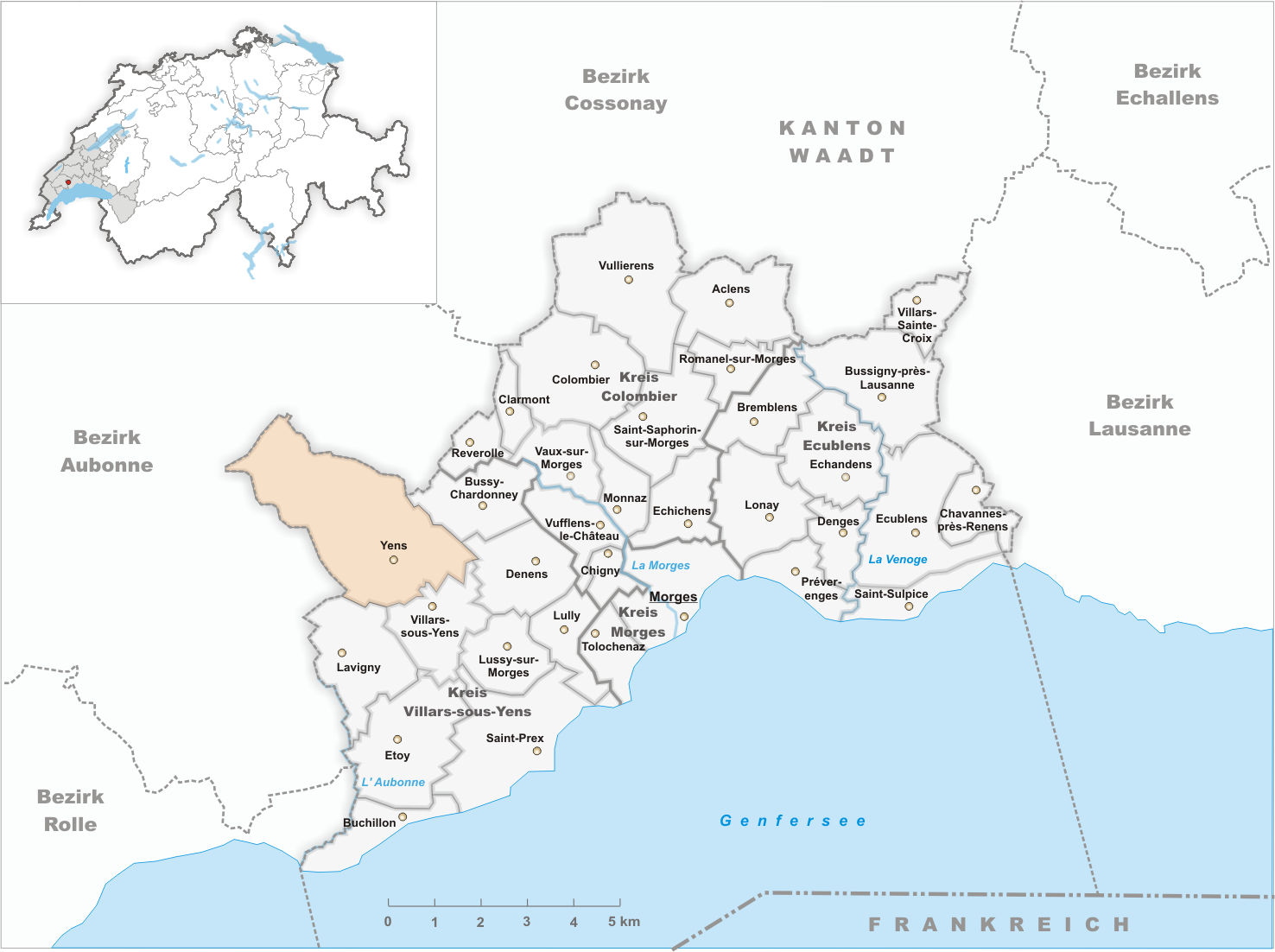 Municipality Yens